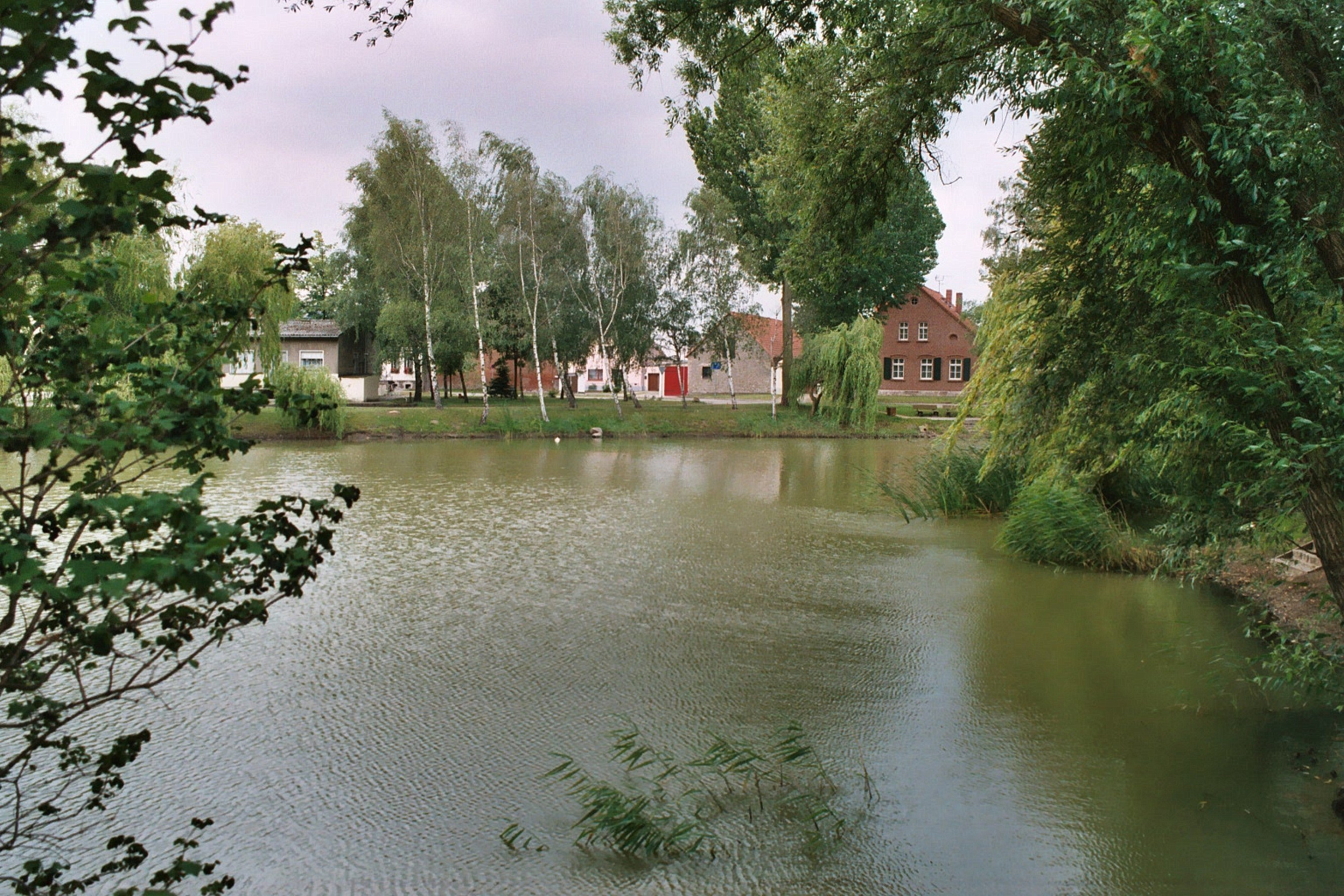 Wespen (Barby), the village pond